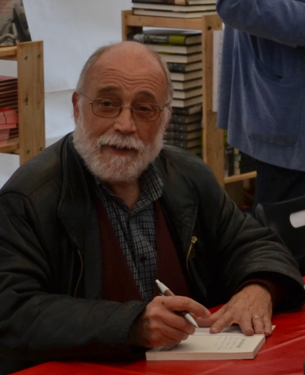 Arcadi Oliveres (detail of the original picture in Flickr)